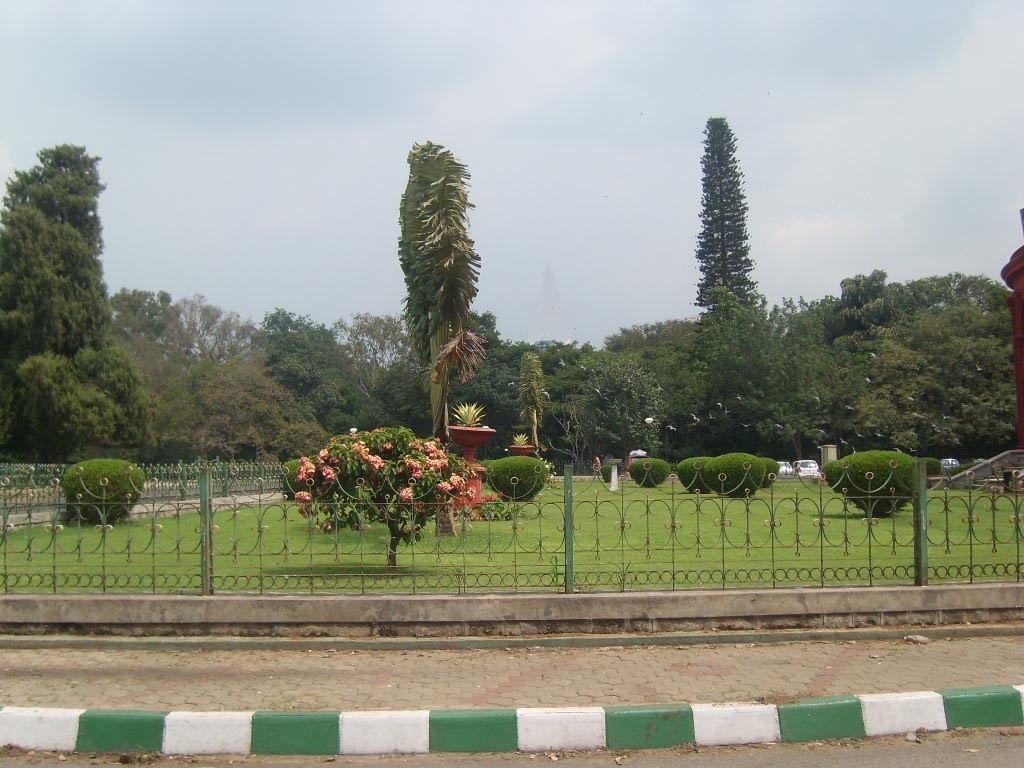 A view of cubbon park